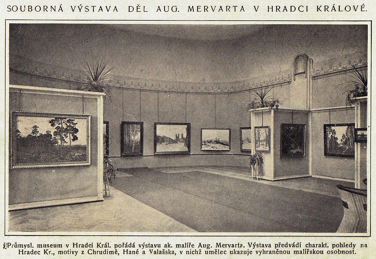 Augustin Mervart's Exhibition in Hradec Králové, 1924